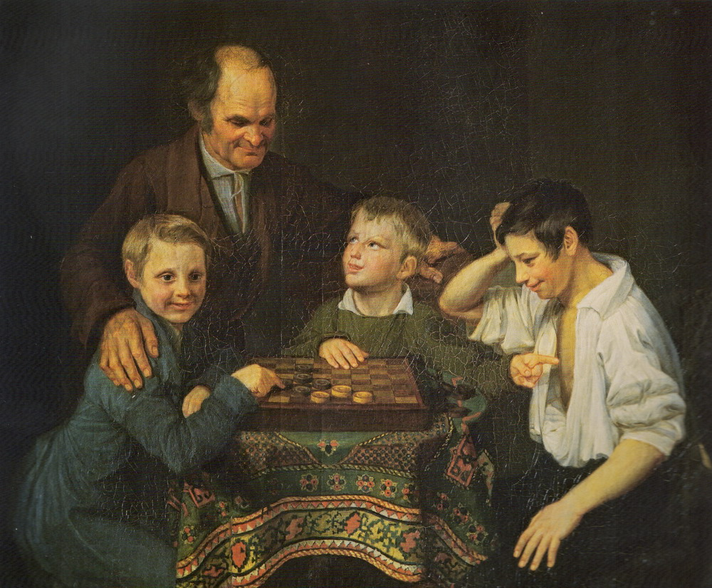 Playing checkers (painting by Pyotr Pnin, 1824, The State Russian Museum, Saint Petersburg, Russia)